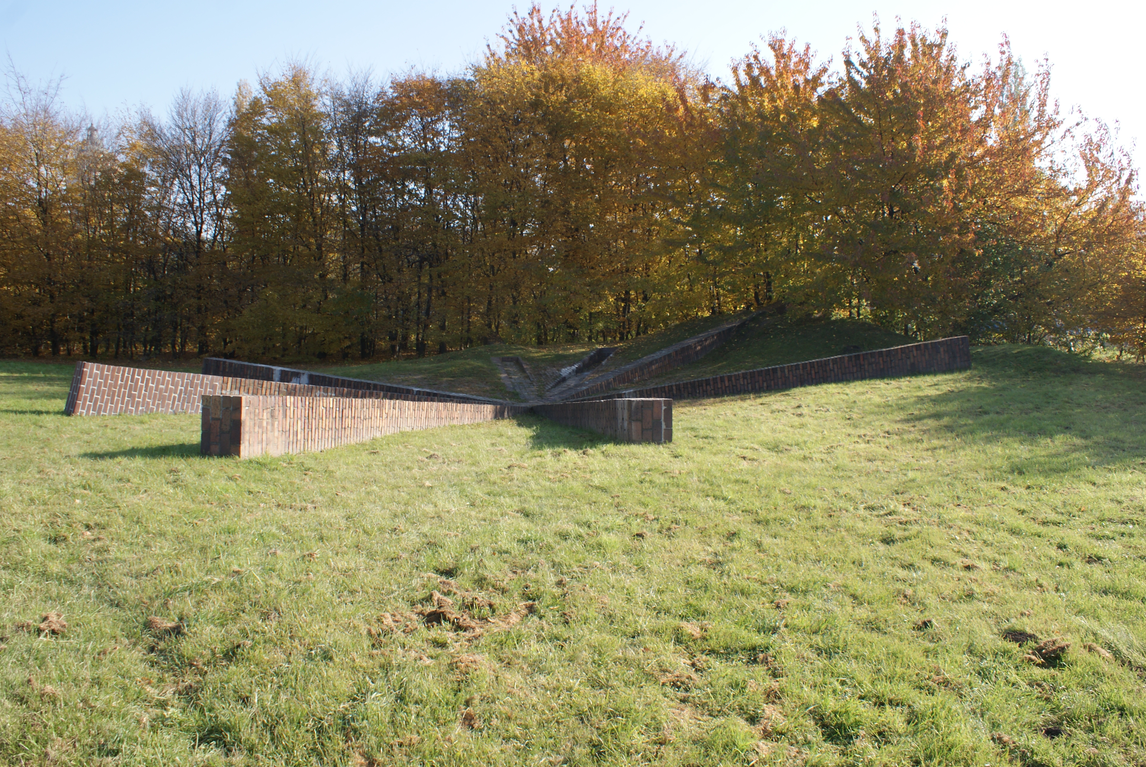 Prague Kbely airport, the place from where the first radio broadcasts of Radio Prague took place in 1923.